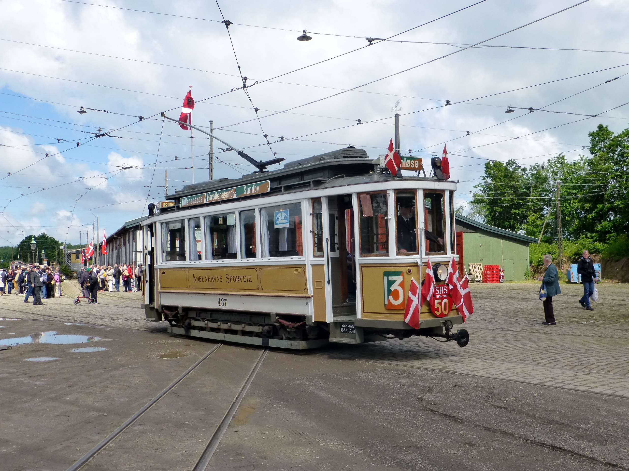 Tram parade at Sporvejsmuseet Skjoldenæsholm due to celebrating of 50 years of the Danish tramway society, Sporvejshistorisk Selskab. Tram from Copenhagen, KS 437 from 1918.